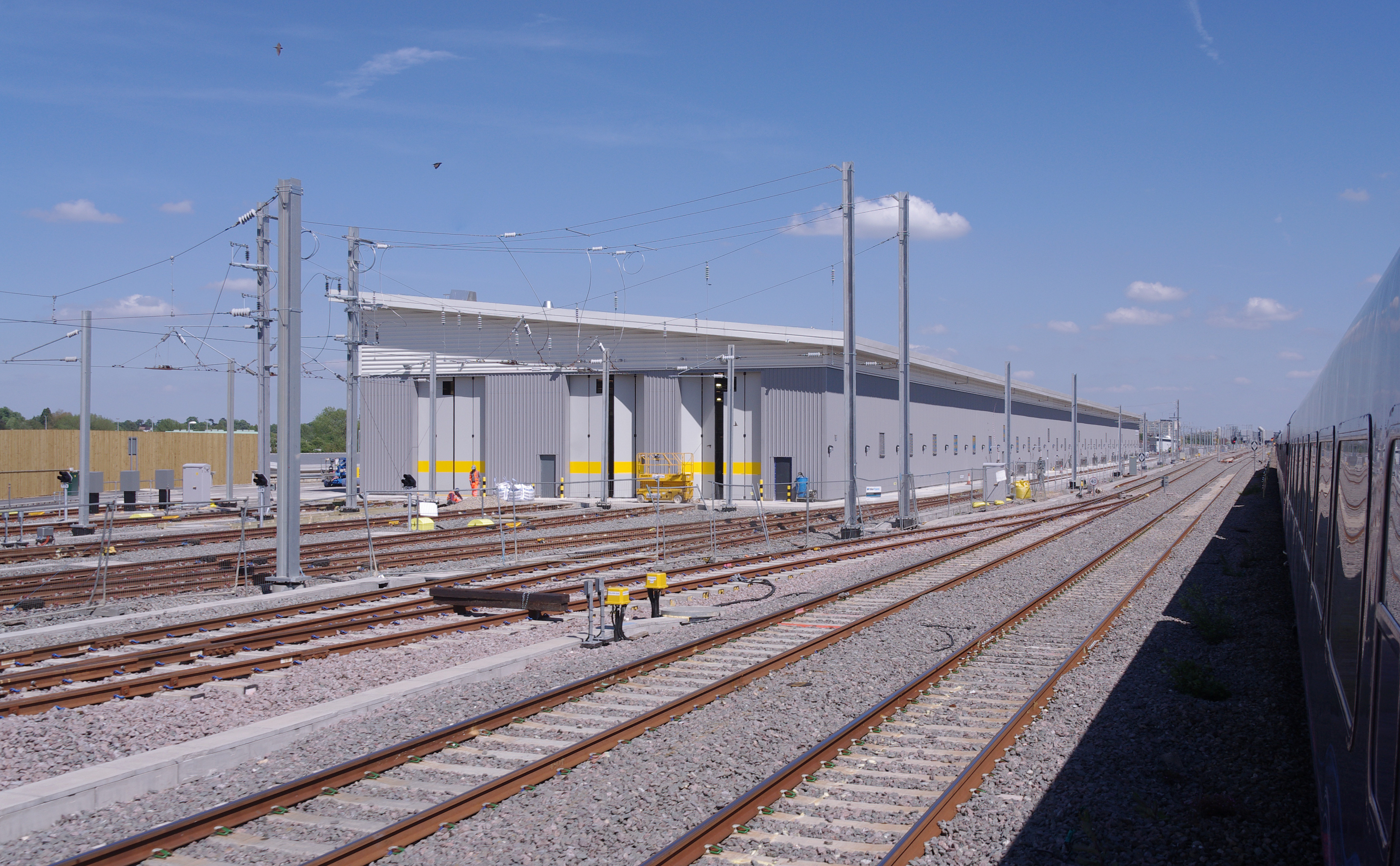 The new Reading TMD, seen from an eastbound First Great Western HST set